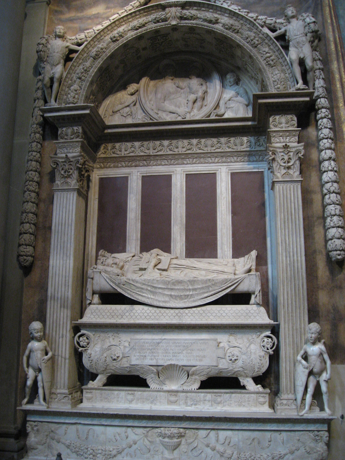 Memorial monument to Carlo Marsuppini, by Desiderio da Settignagno (ca. 1430-1464).